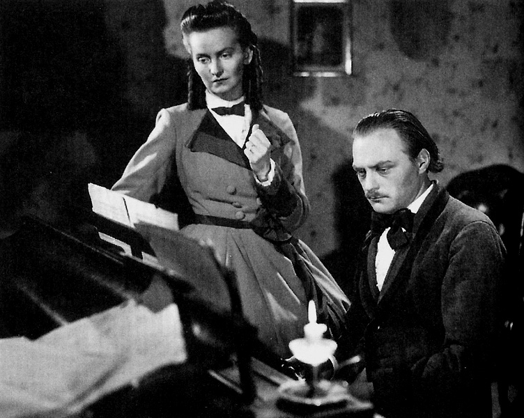 A scene from the movie "Lisinski" (1944)